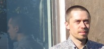 Artist Kasper Muttonen, Rome, 2015